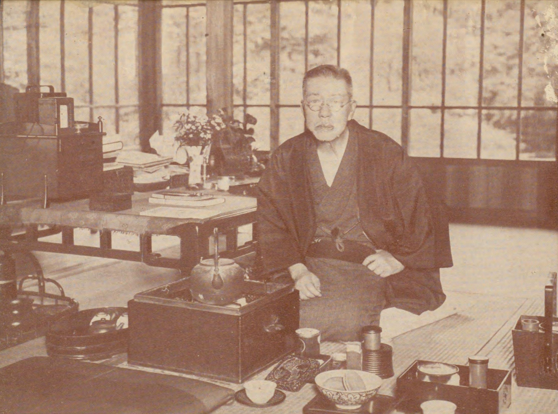 Ichishima Kenkichi (Shunjō) around 1933.